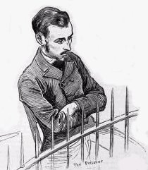 Newspaper illustration from The Illustrated London News 1881